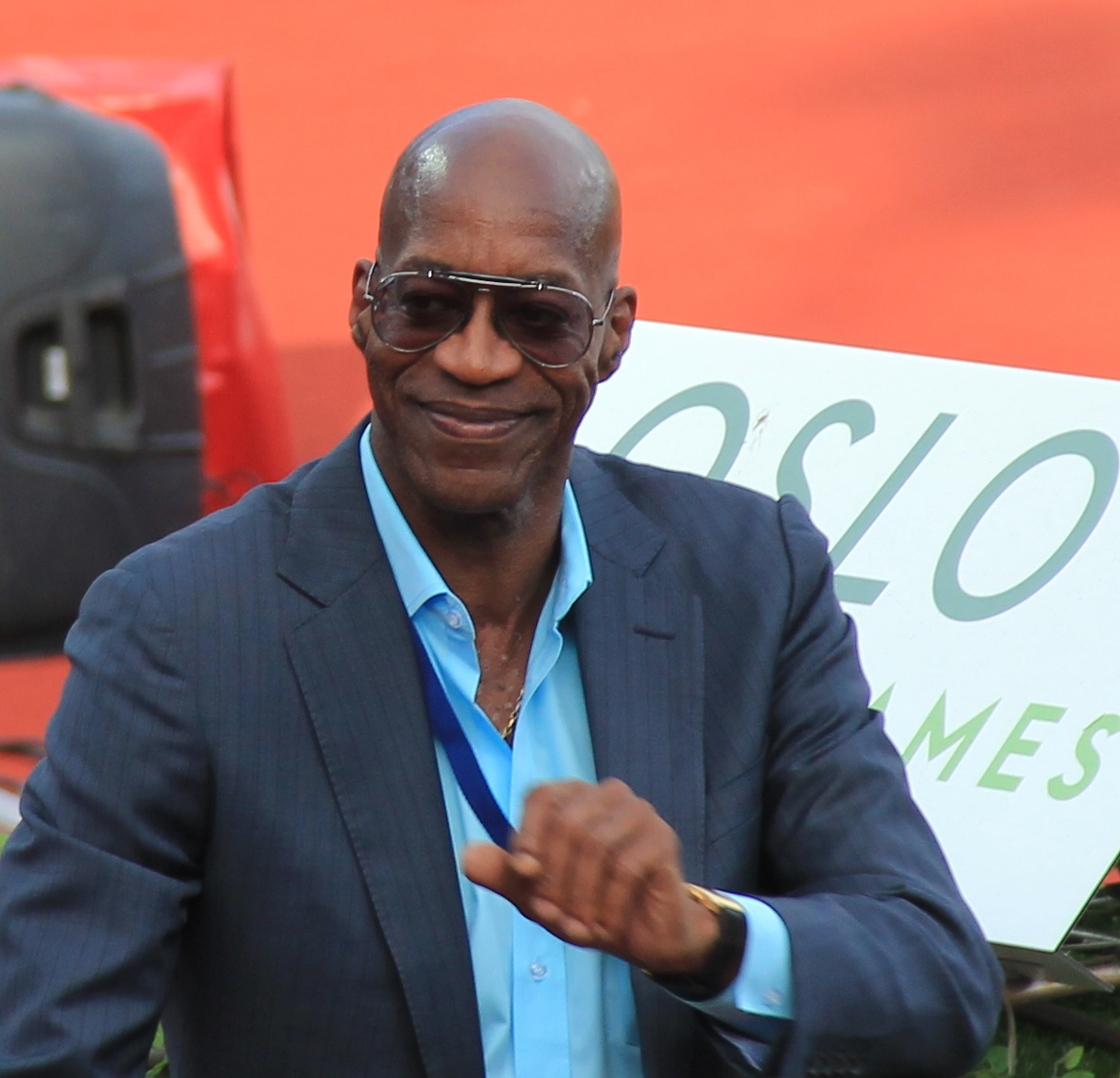 Edwin Moses at the 2017 Bislett Games